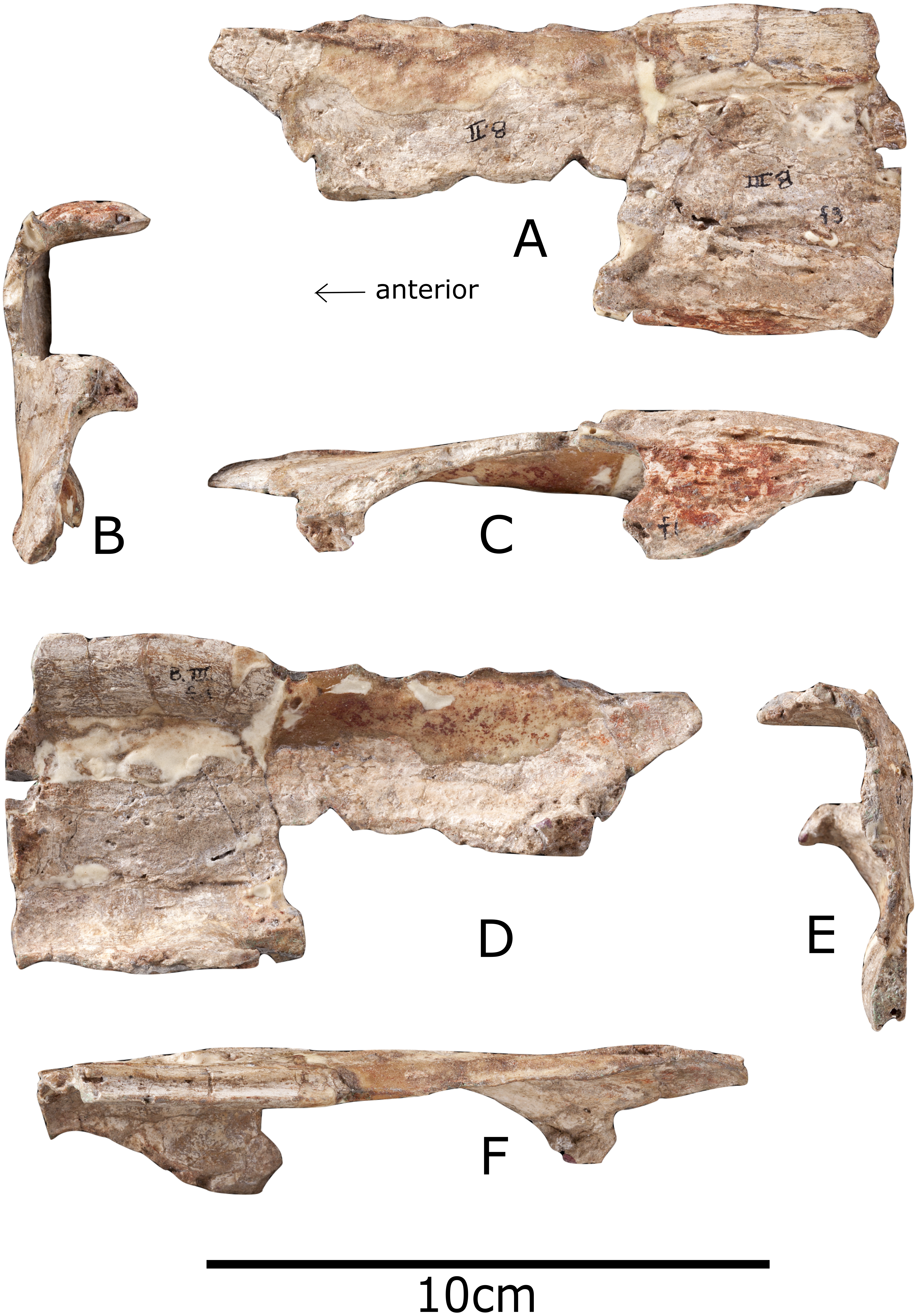 Figure 3: Nasal of Paranthodon africanus NHMUK R47338. (A) Dorsal; (B) posterior; (C) lateral; (D) ventral; (E) anterior; (F) medial. Images copyright The Natural History Museum.